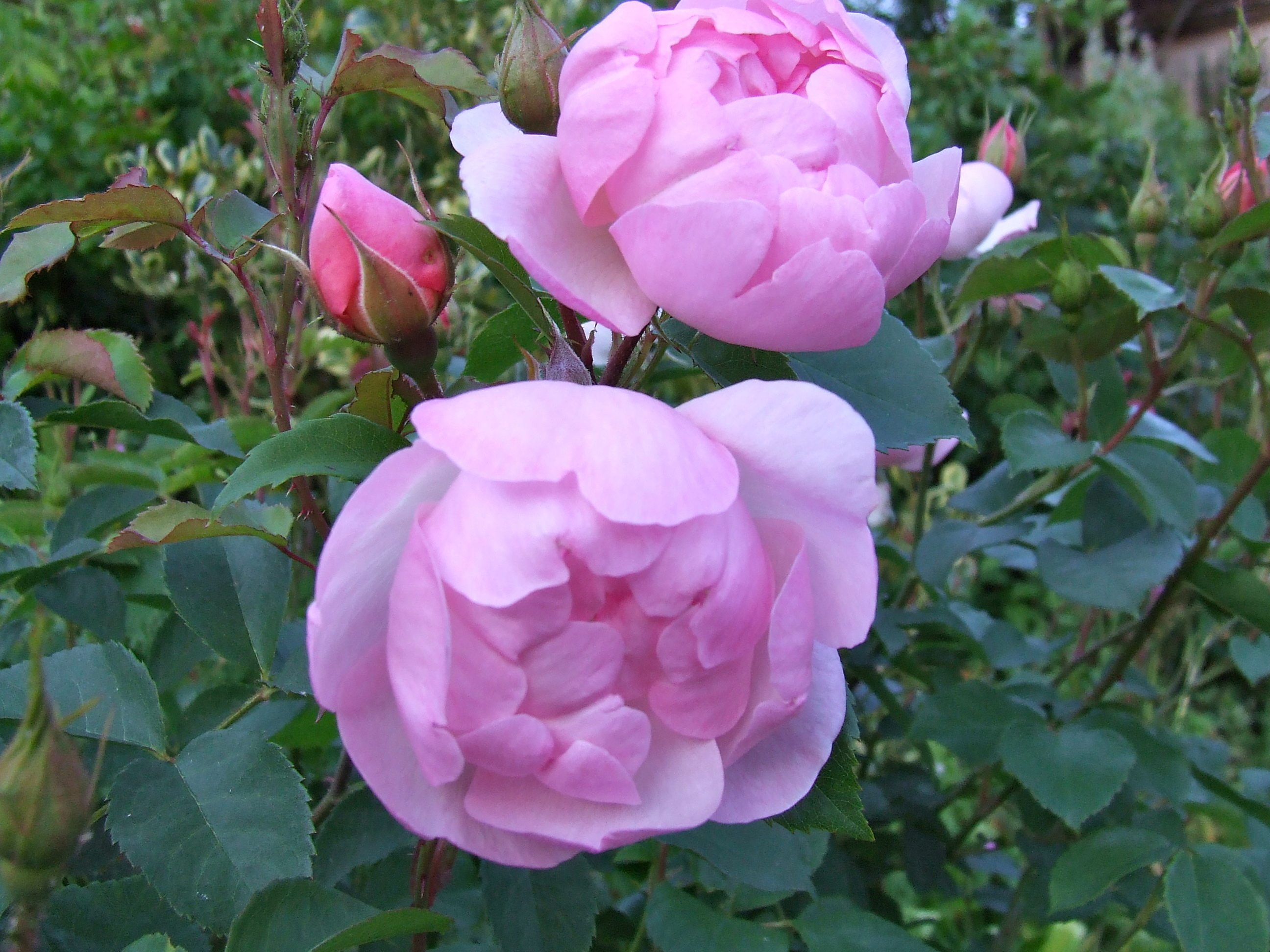 David Austin English Rose 'Scarborough Fair', introduced in 2003.